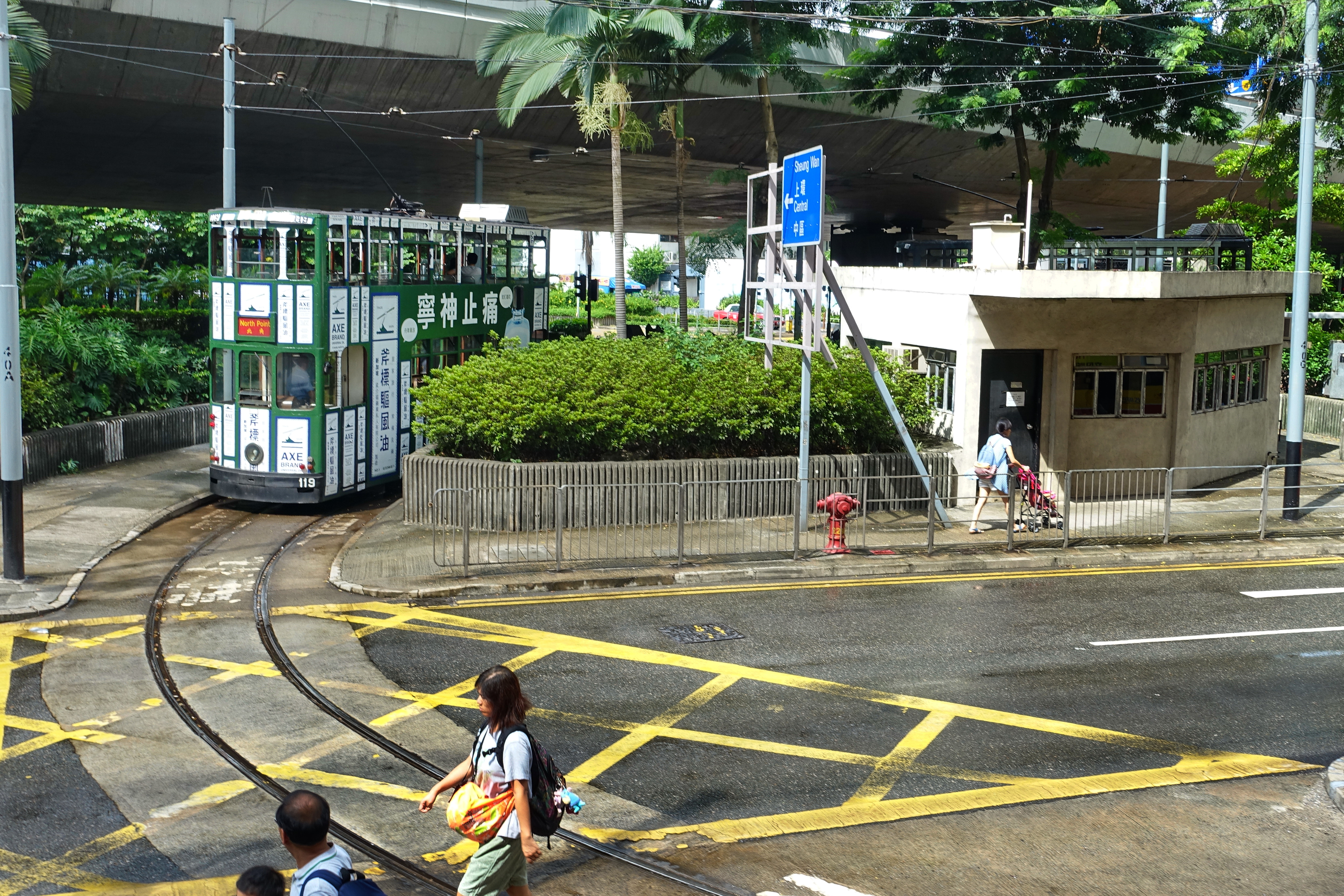 Hong Kong Tramways, Whitty Street Terminus (Shek Tong Tsui Terminus), Hong Kong.